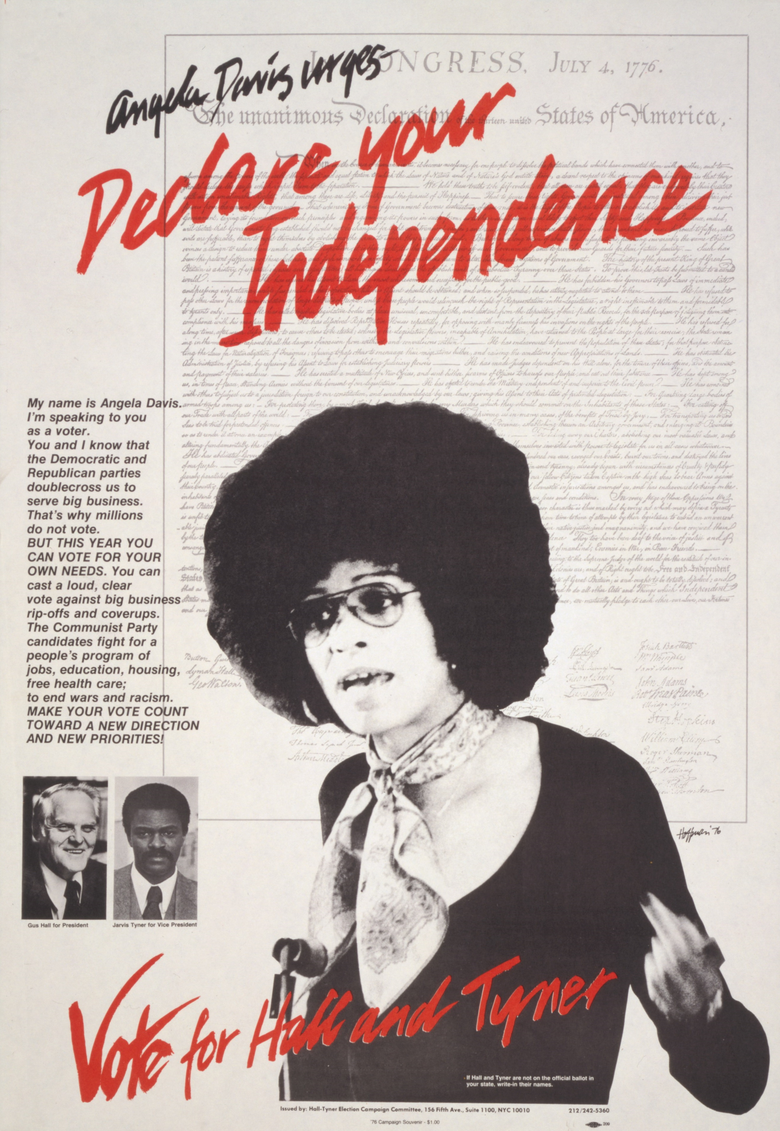 Title: Angela Davis urges -- declare your independence : vote for Hall and Tyner Abstract: 1 print ; (poster format)